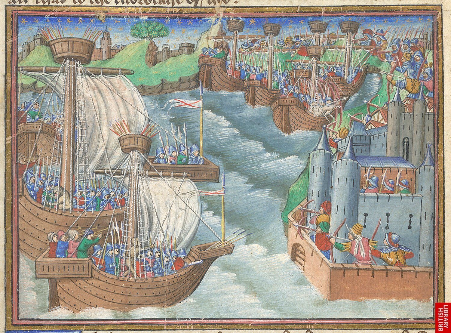 Detail of a miniature of the Christian fleet approaching Gaeta with archers poised to defend the city.